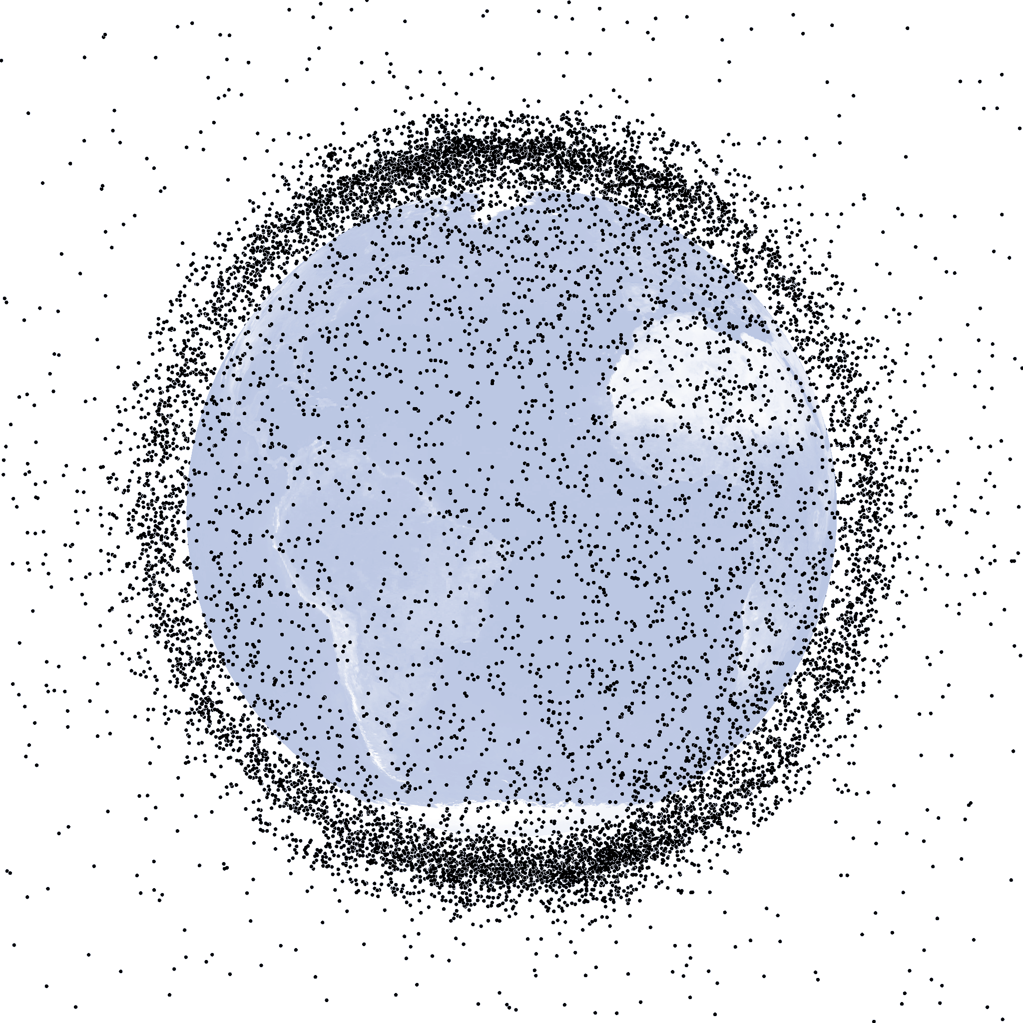 Image made from models used to track debris in Earth orbit. Of the approximately 19,000 man-made objects larger than 10 centimetres in Earth orbit as of July 2009, most orbit close to the Earth.